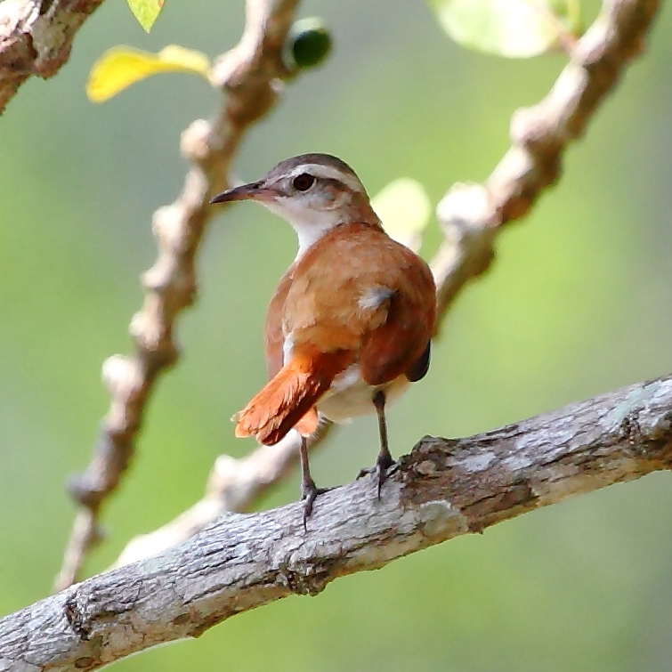 Lesser Hornero at Iranduba - AM - Brazil